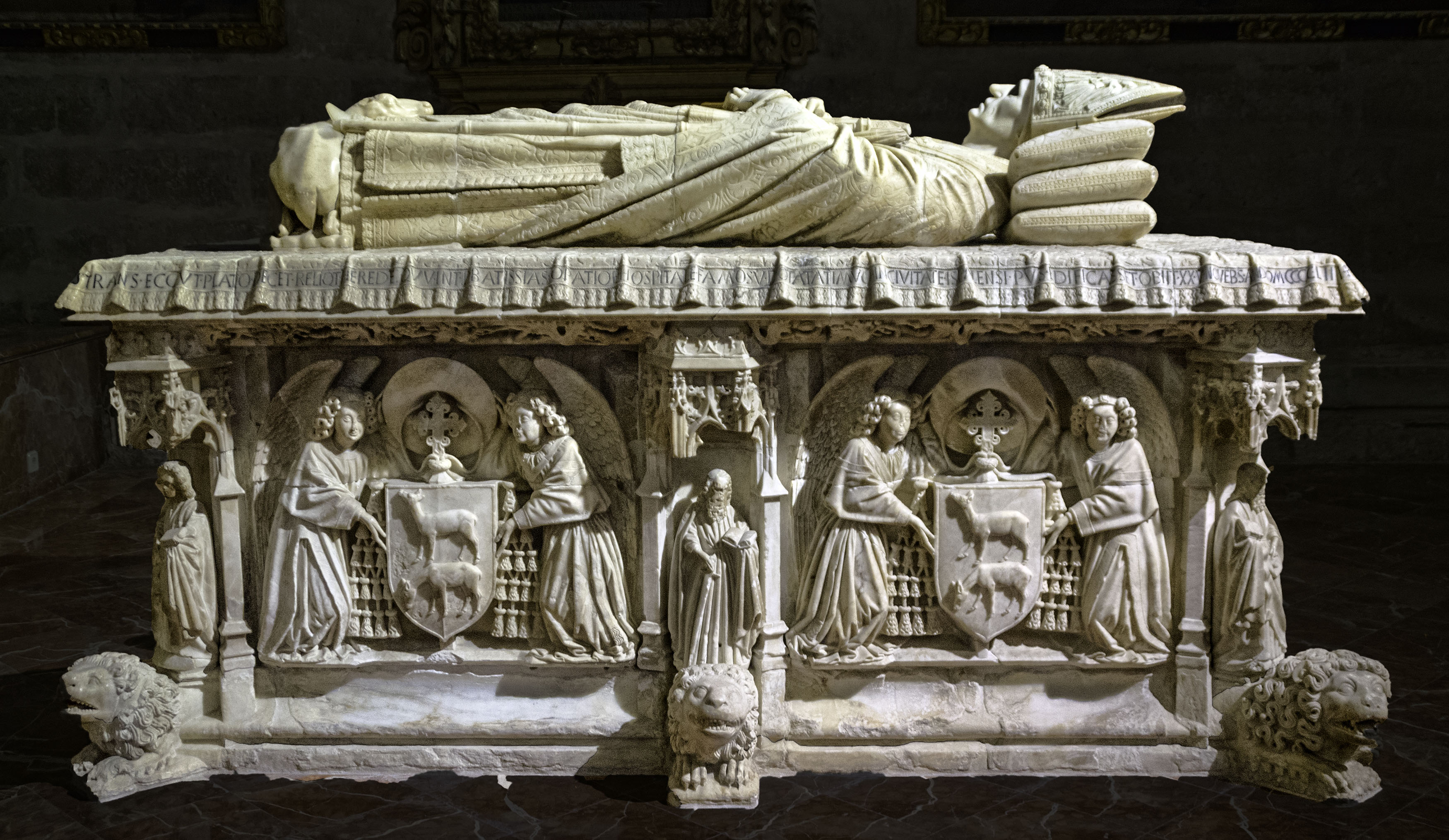 Tomb of the cardinal Juan de Cervantes Bocanegra (1455) carved in alabaster.